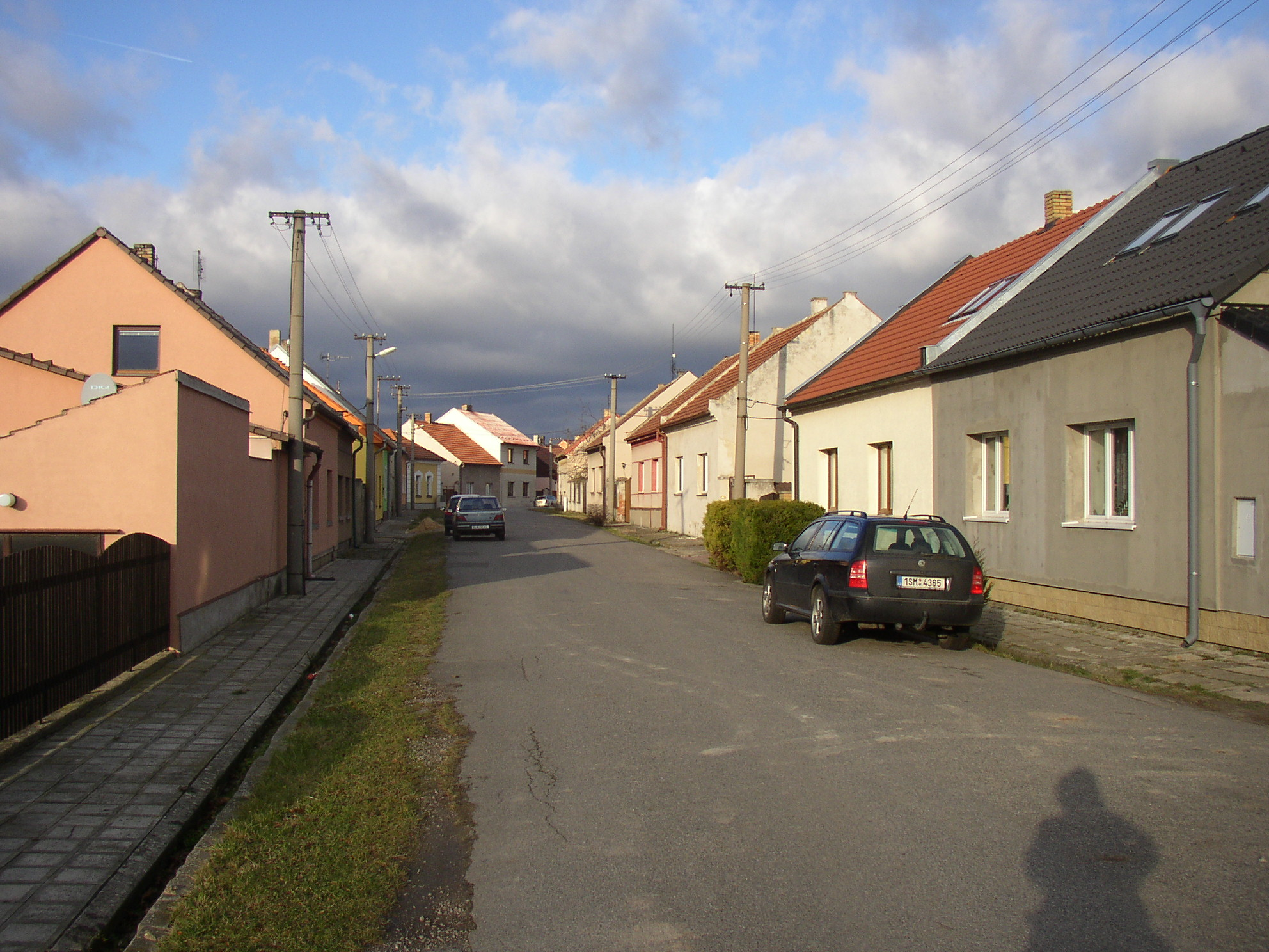 Želenice, Kladno District, Czech Republic. A view from southern end of the village along Upper Street un notthern direction, towards centre.